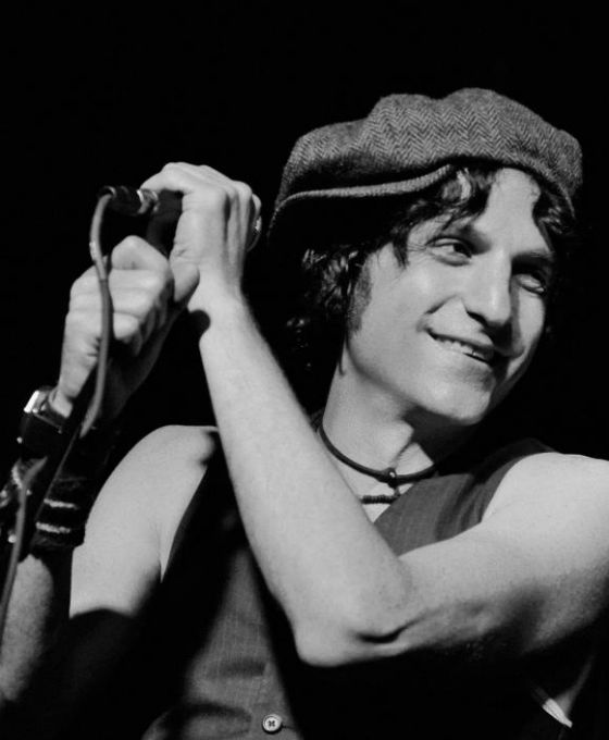 Jesse Malin performing on stage